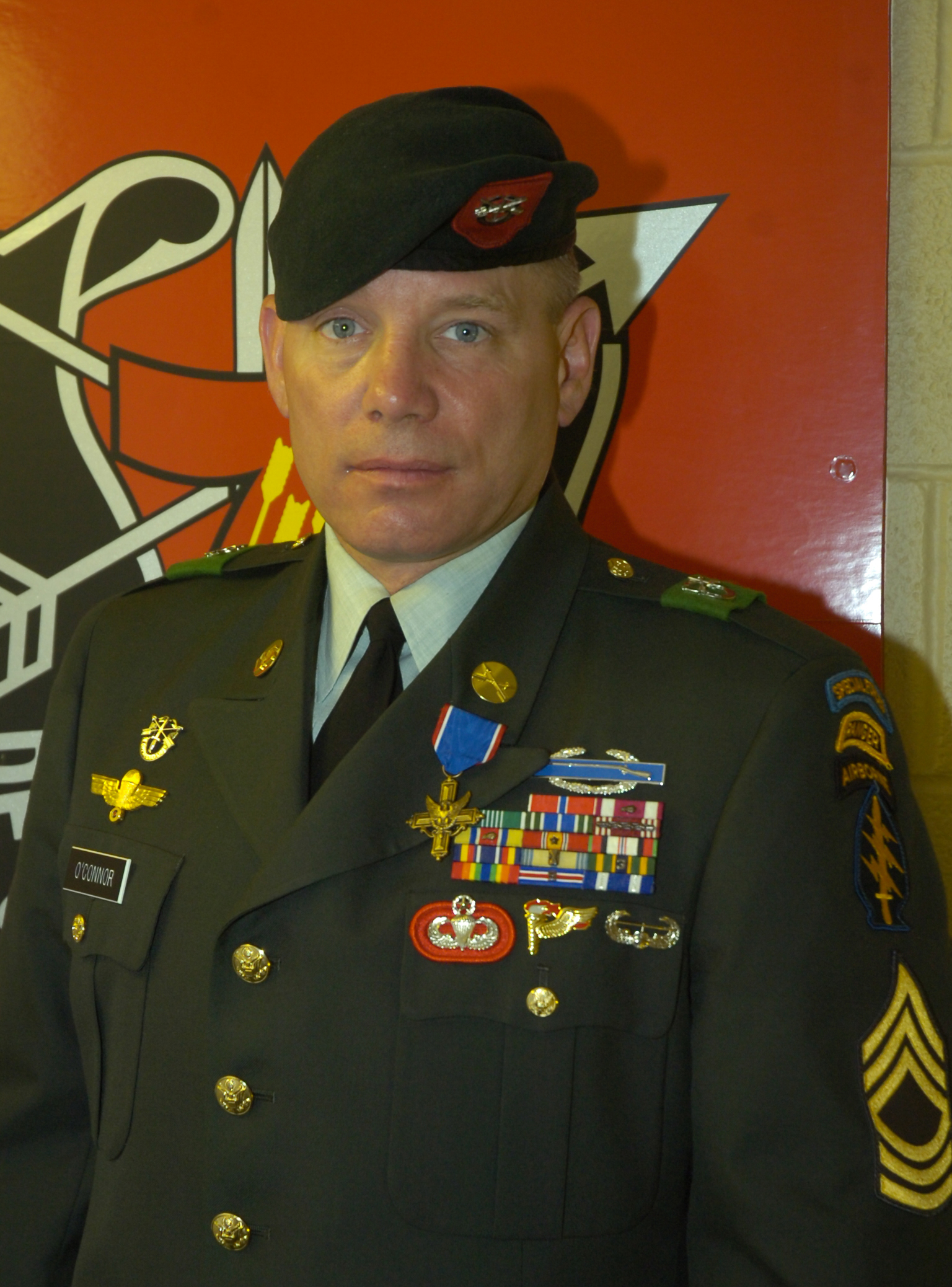 Master Sergeant Brendan O'Connor, U.S. Army, awarded DSC